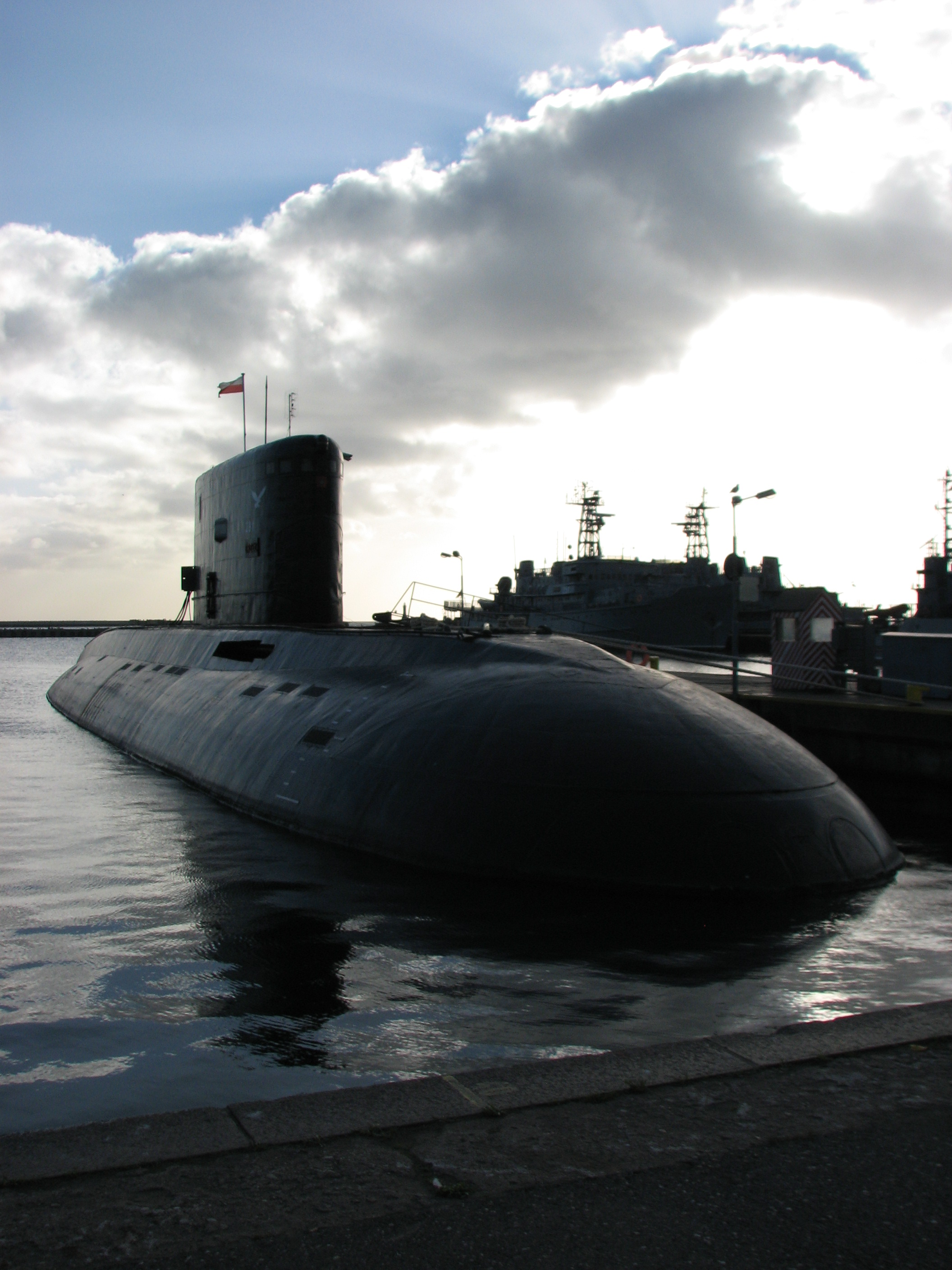 Polish submarine ORP Orzeł, project 877E (Kilo) class, Gdynia